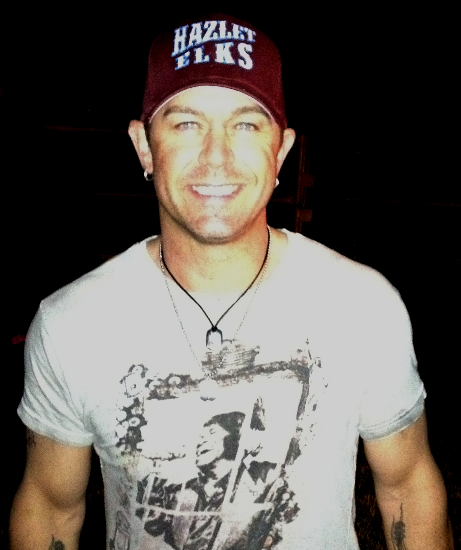 Aaron Pritchett performing at Hazlet Regional Park